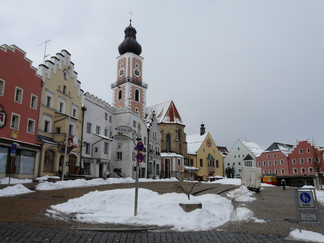 Cham - Marktplatz (Cham - Market Square)